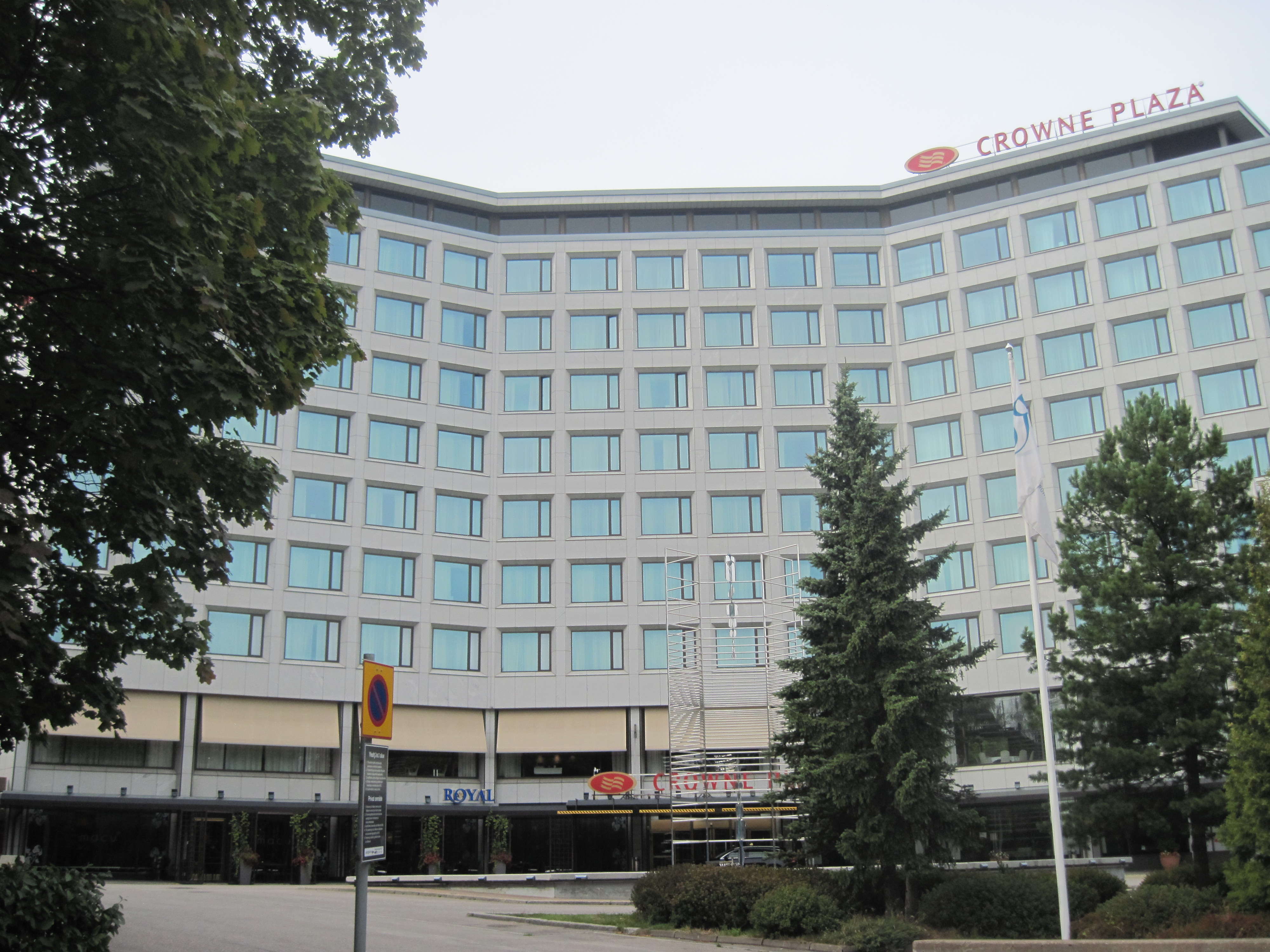 Hotel CrownePlaza (former Hesperia) in Helsinki, Finland